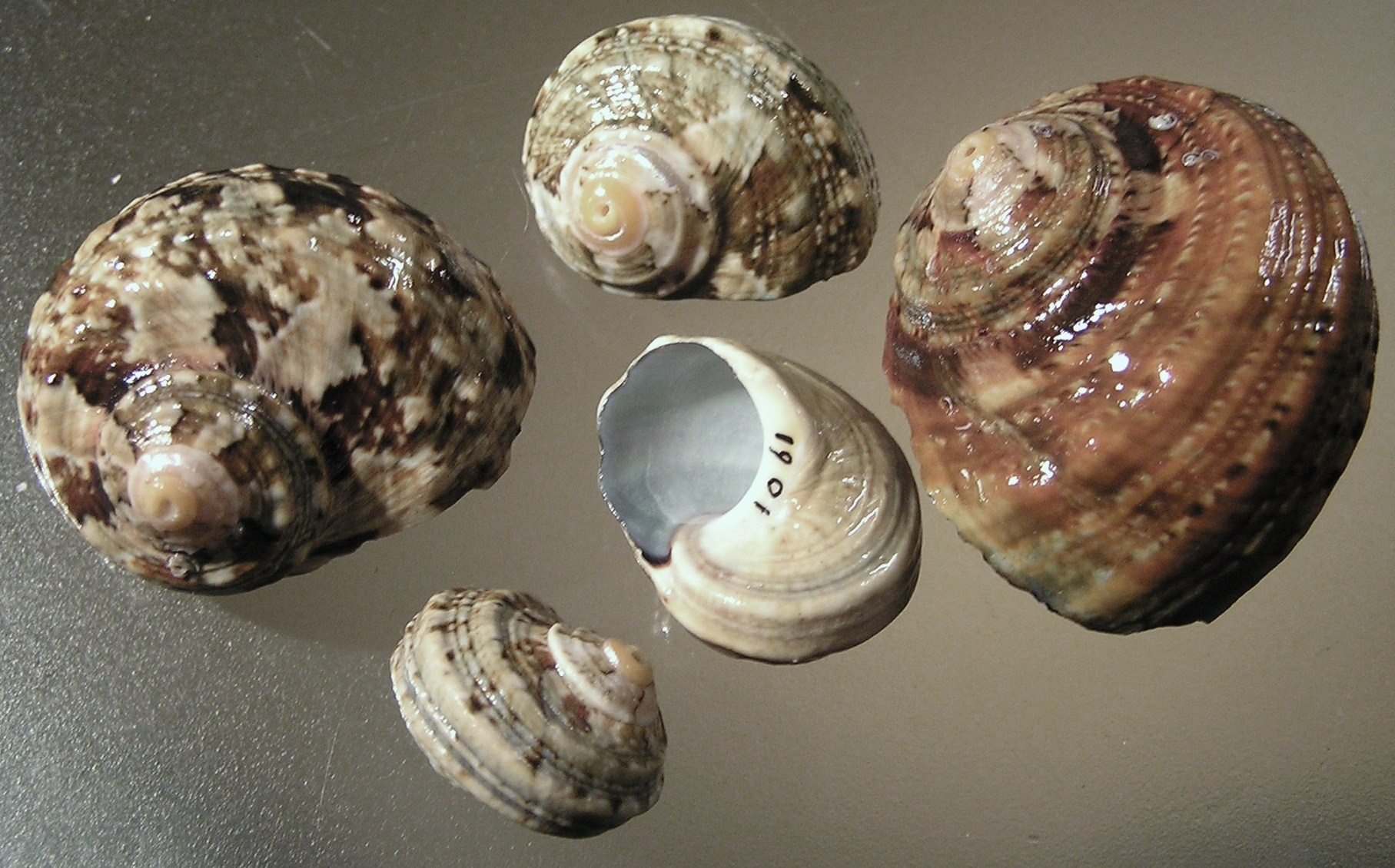 Turbo (Sarmaticus) sarmaticus Linnaeus, 1758, a sea snail from the family Turbinidae; South Africa